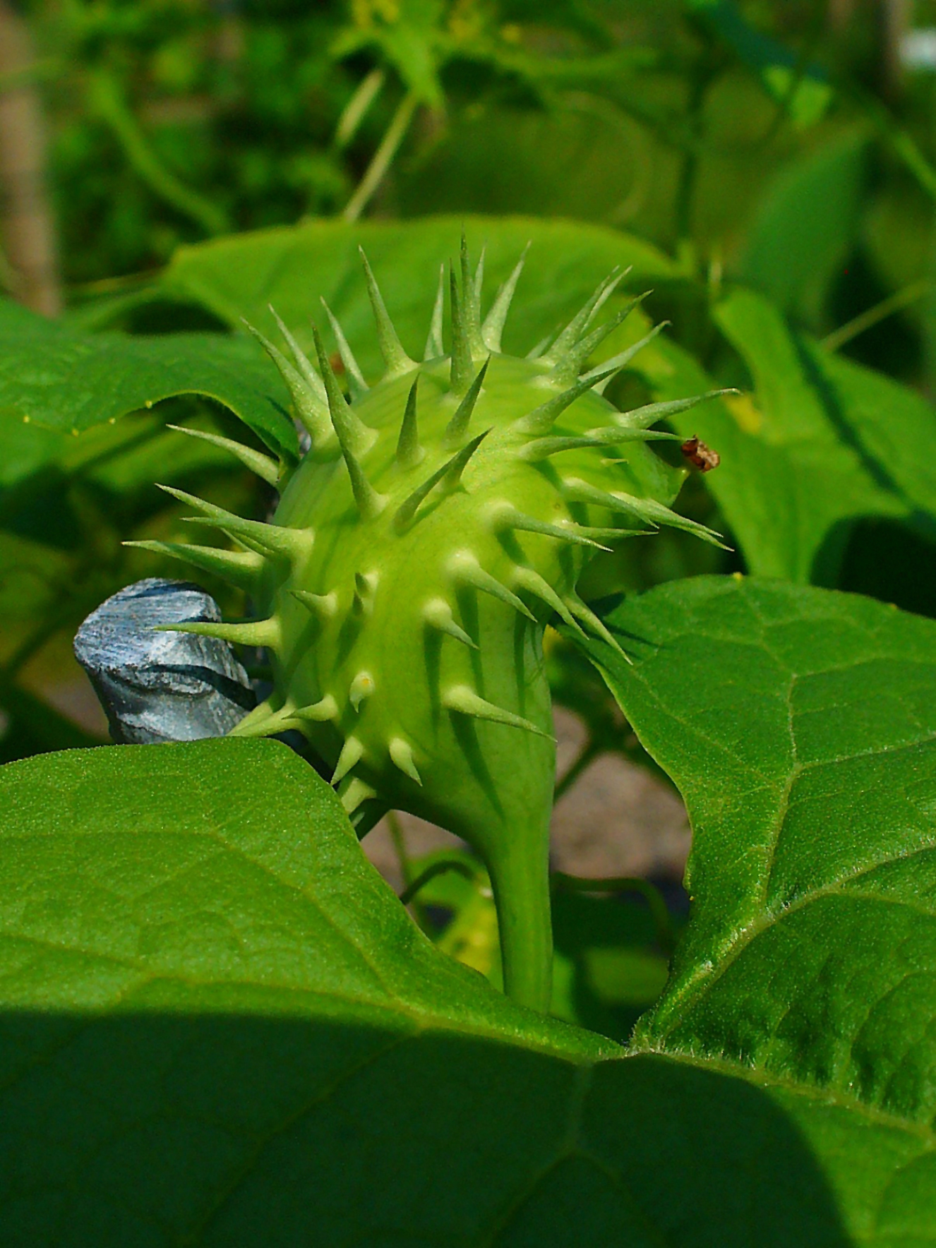 Cyclanthera brachystachya, Cucurbitaceae, Bolivian Cucumber, fruit; Botanical Garden KIT, Karlsruhe, Germany.